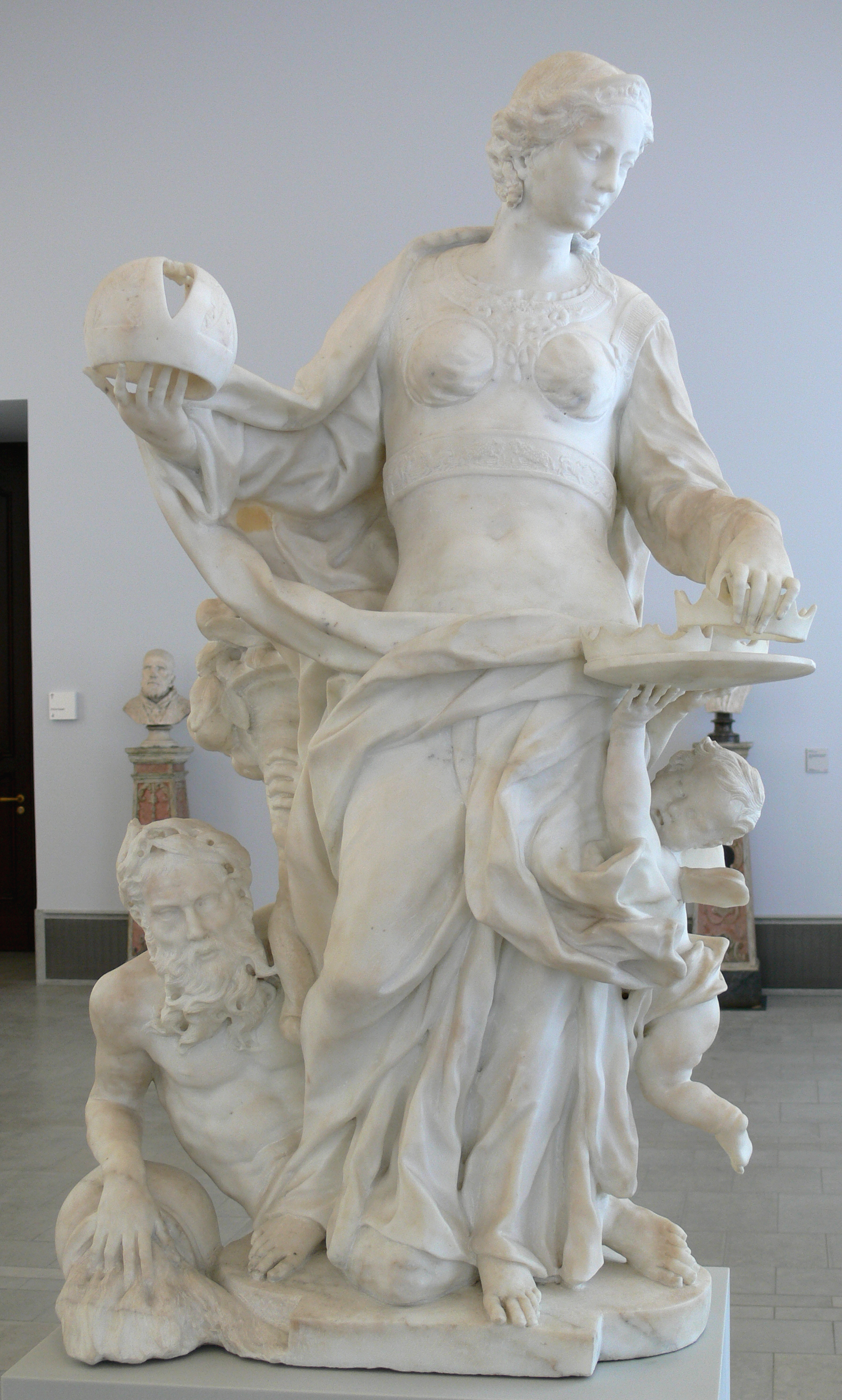 Giovanni Baratta: Allegory of Lombardy, marble